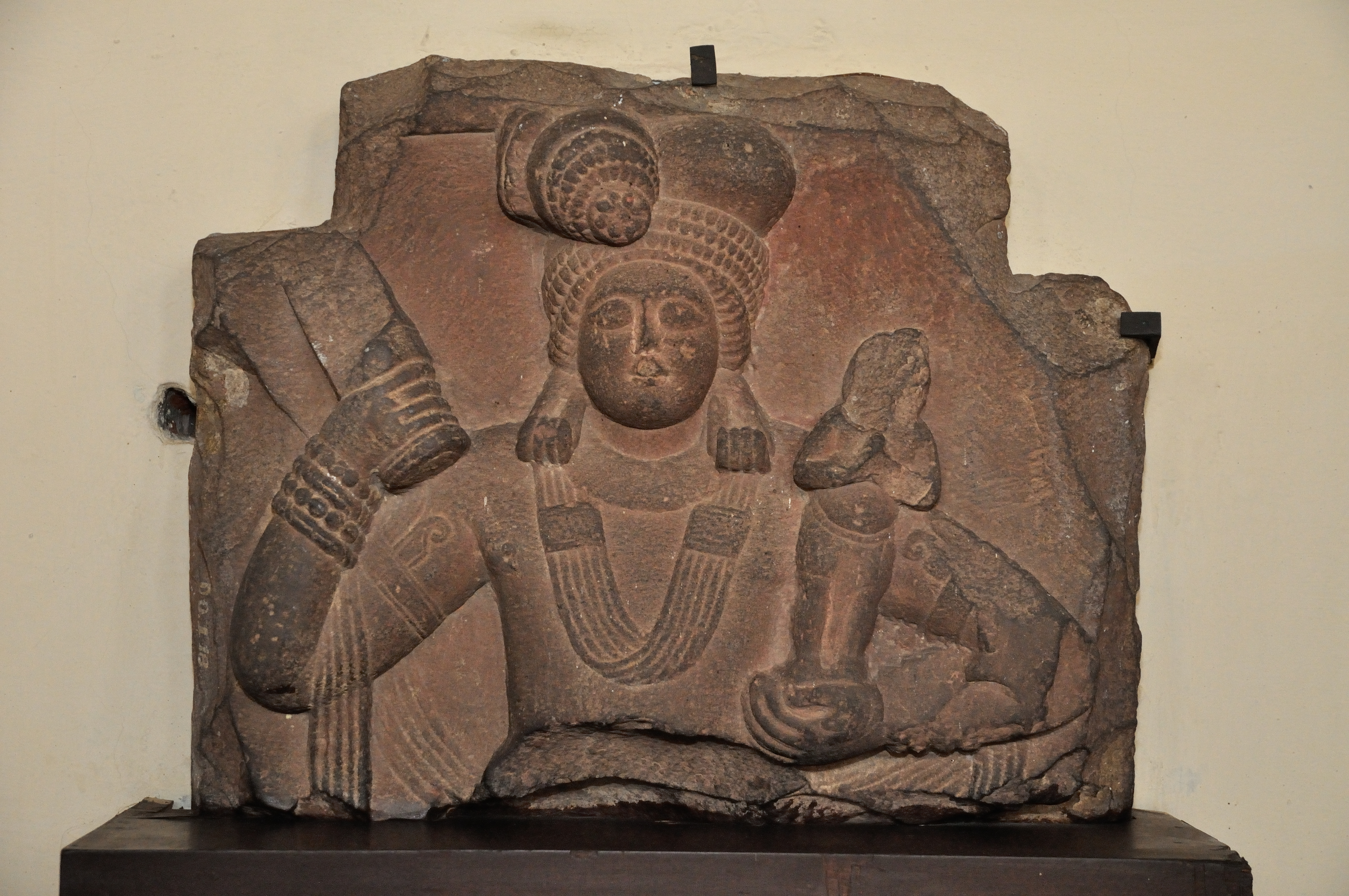 This artefact resides at the Government Museum, (hi: Rashtriya Sangrahalaya) formerly The Curzon Museum of Archaeology, Museum Road or Murari Lal Rajpal road, Dampier Nagar, Mathura, Uttar Pradesh, India. This museum is administrating by the State Government of Uttar Pradesh of India.